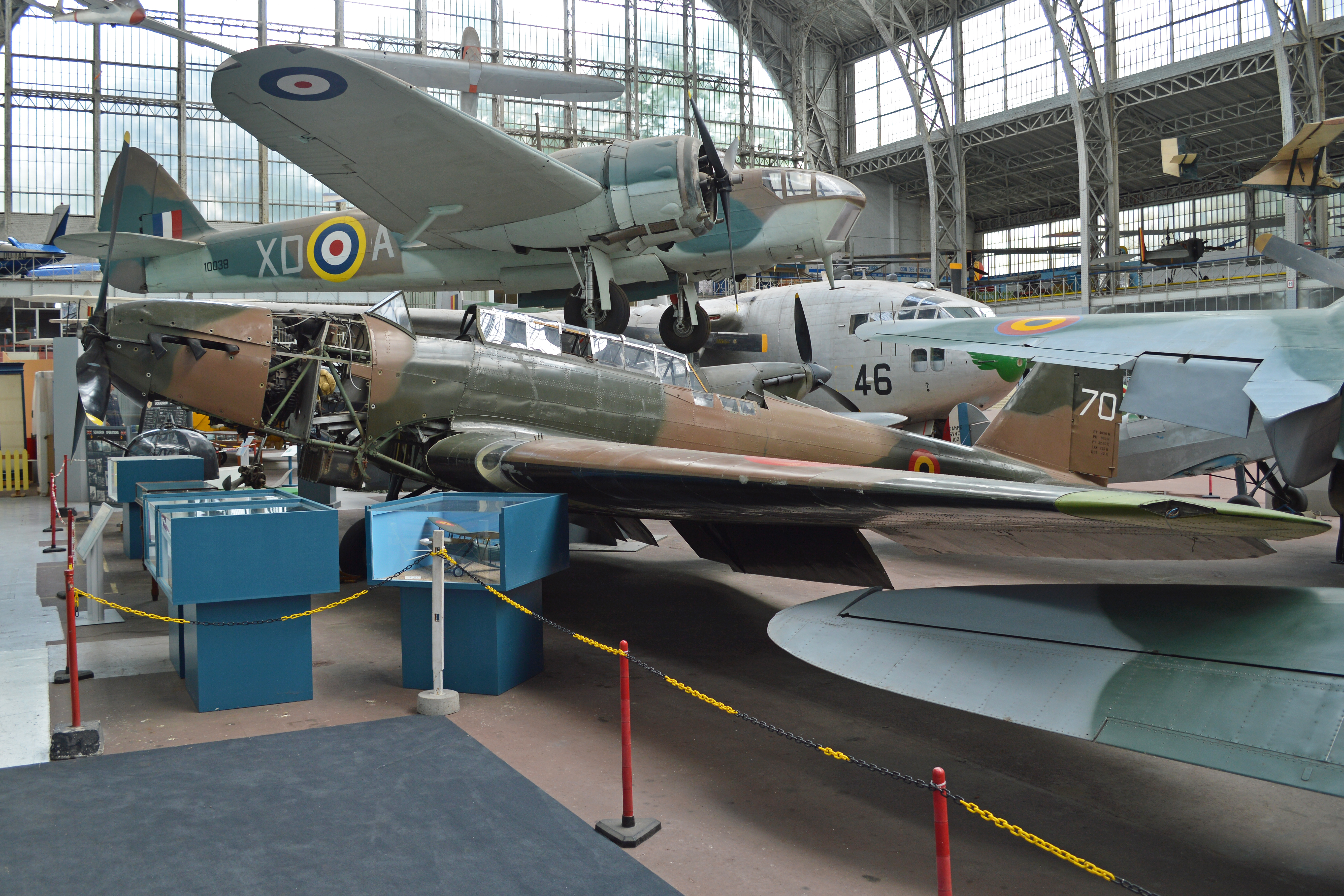 c/n 1899. Although in accurate Belgian Air Force markings, this rare Fairey Battle has no actual Belgian history. It was built as a standard Mk.I for the RAF with the serial ‘R3950’. In 1941 it was transferred to the RCAF with the serial ‘1899’ and was converted to a TT.I target tug. Retired in 1945, it was sold off and remained unrestored until changing owner in 1970. In 1972 it moved to the Strathallan Aircraft Collection in Scotland where the restoration to airworthy condition continued. In 1987 it was sold to Charles Church but moved to the IWM at Duxford for temporary static display. In 1990 it was delivered to Brussels in a Belgian Air Force C-130 and has since been on display, still under restoration, at what is known as the Brussels Air Museum, although it is actually the Air and Space Section of the Royal Museum of the Armed Forces and Military History. Brussels, Belgium. 26th June 2016